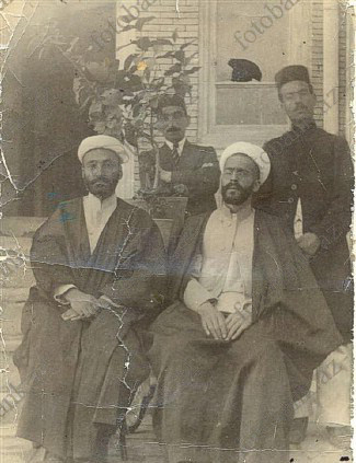 Xiyabani Sheyx Mehemmed, Mehemmedeli Sefvet, M.T.Refet